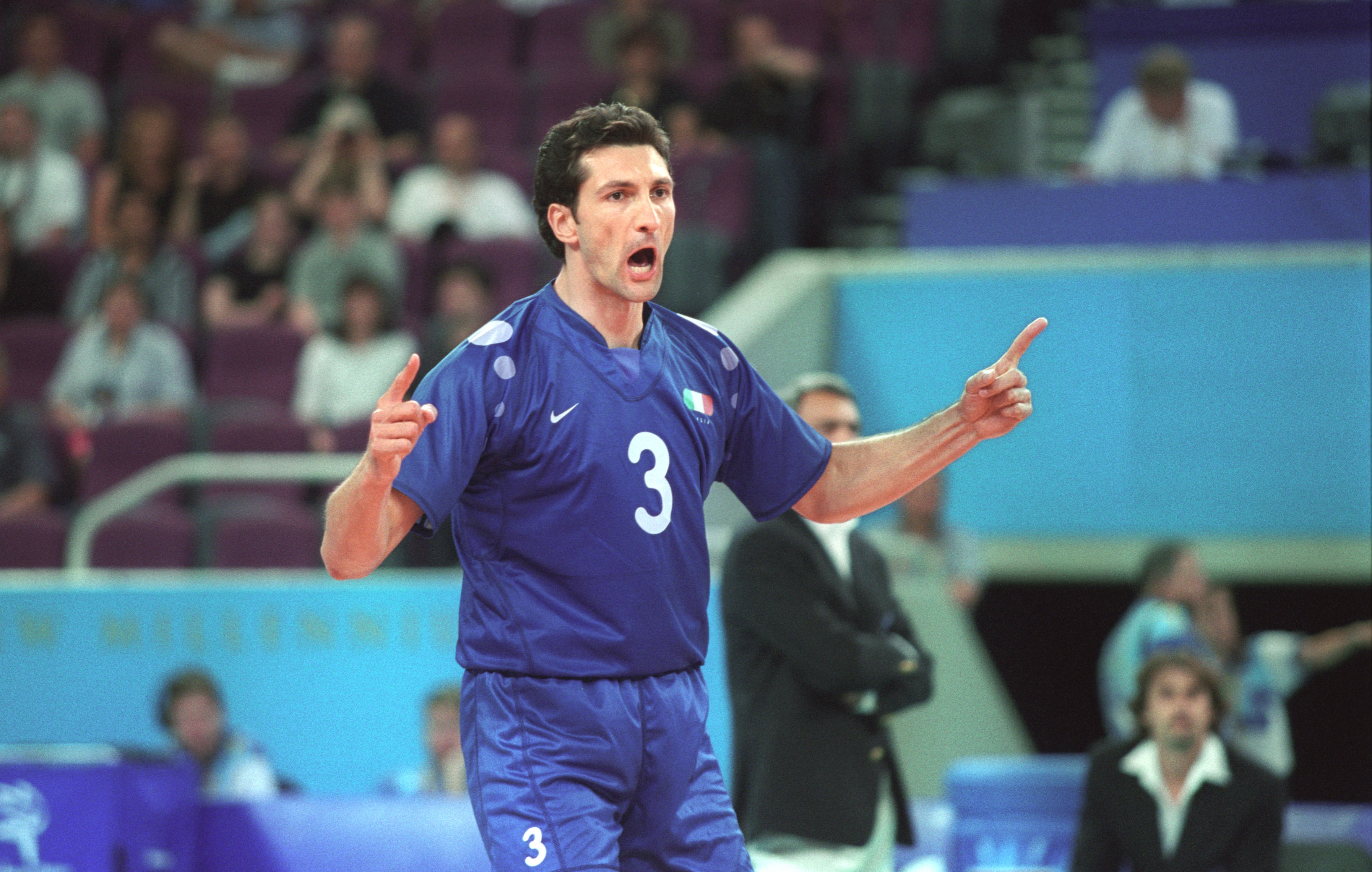 Pasquale Gravina in action at the Olympic Games in Sidney 2000